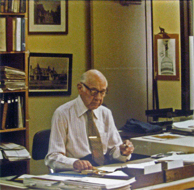 Portrait of Frederick A. Muhlenberg sitting at his desk at Muhlenberg Greene Architects